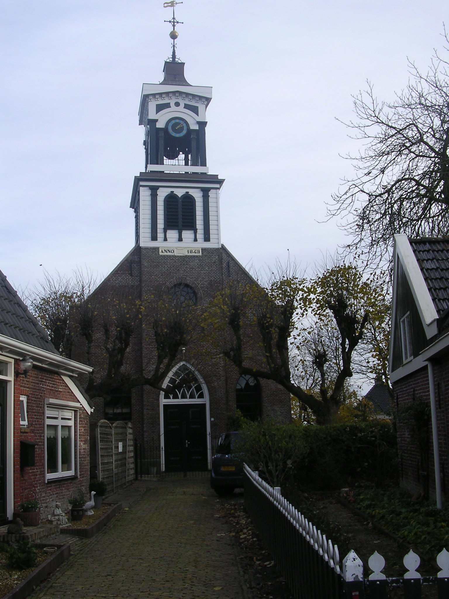 Church of Morra